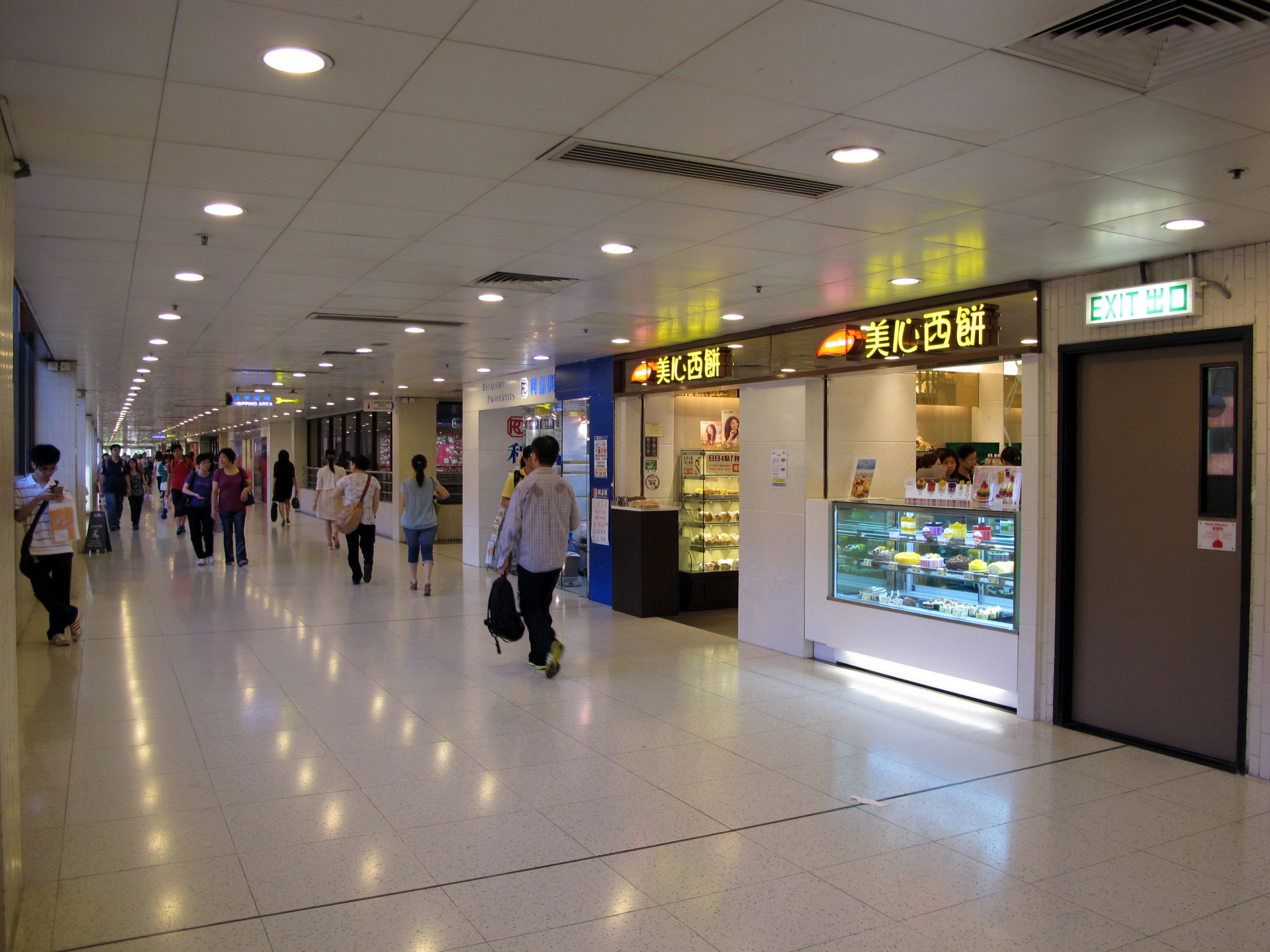 Wai Wah Centre L3_Access